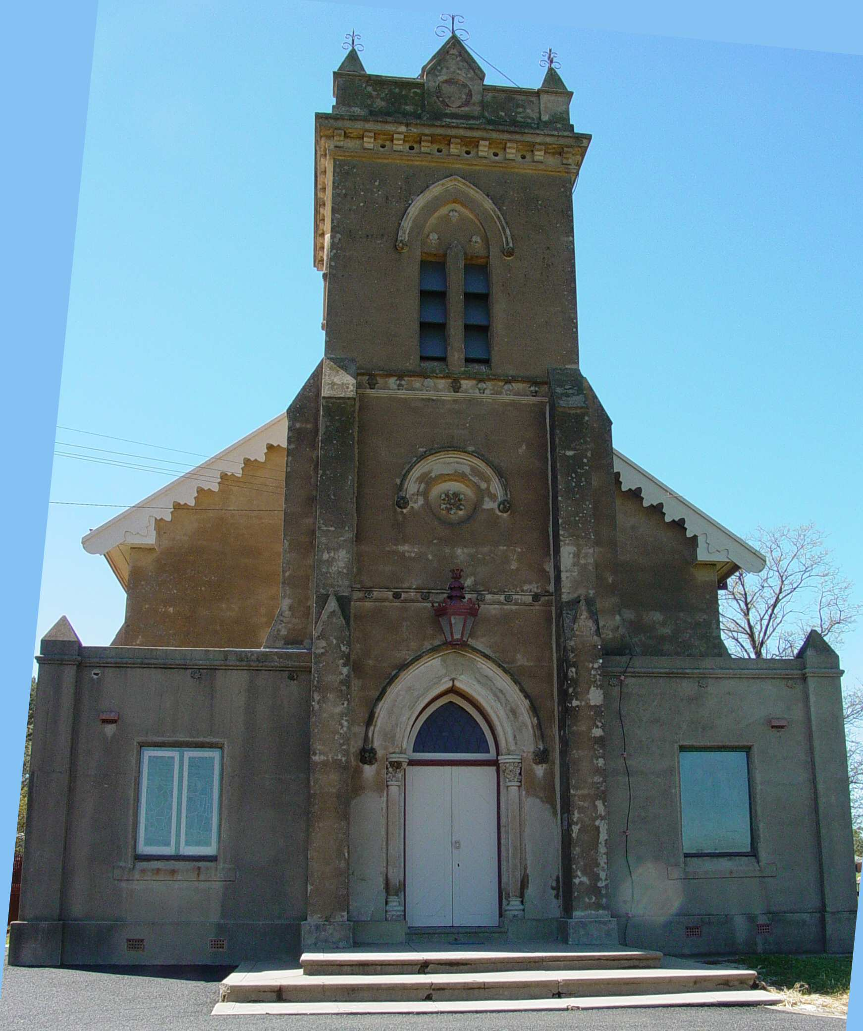 Photo taken and supplied by Brian Voon Yee Yap. Kelso Holy Trinity Anglican Church. Built in 1834 and dedicated in 1835